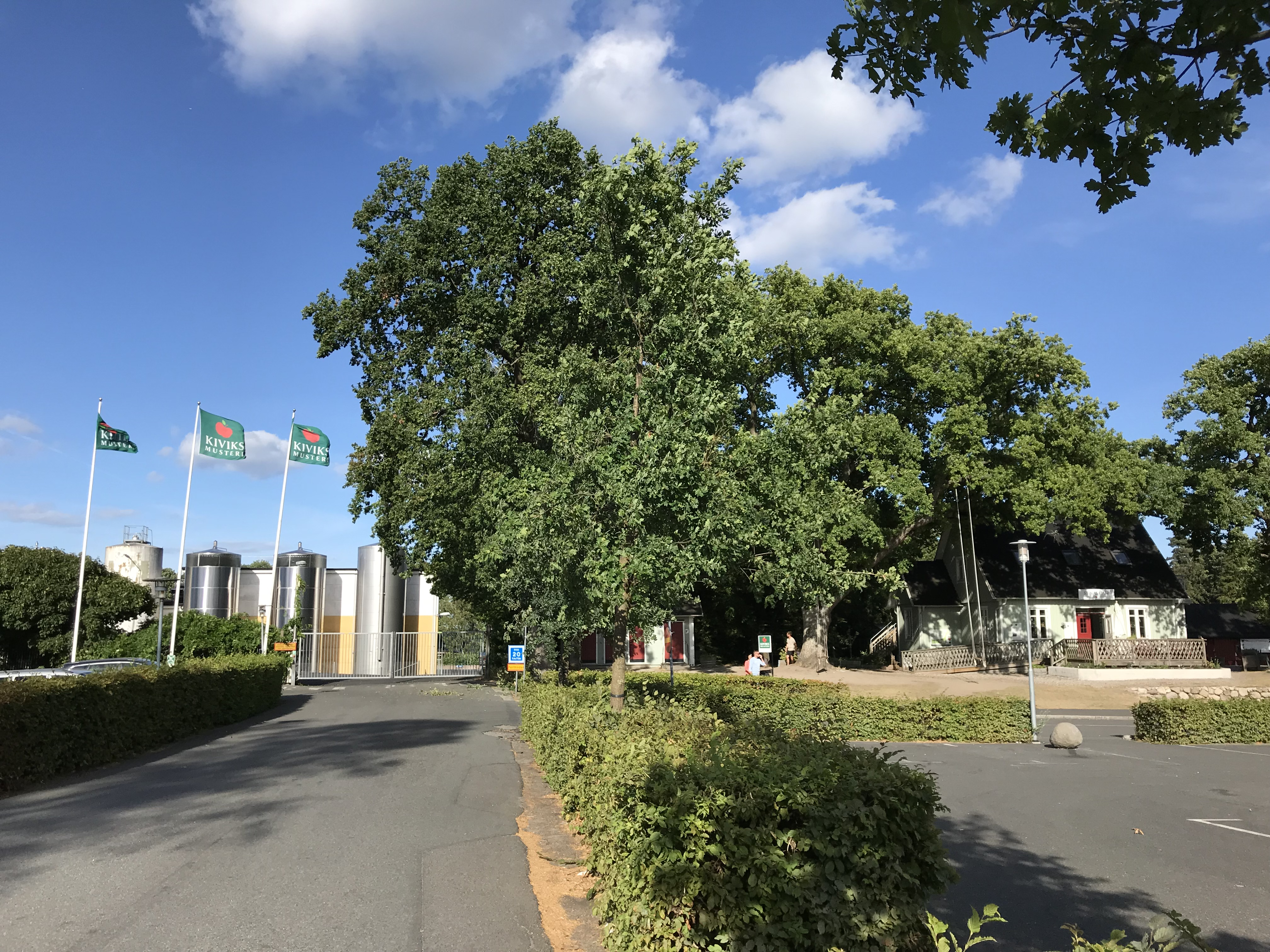 Kiviks Musteri, apple cider manufacturing in Kivik, Simrishamn Municipality, Sweden, on August 5, 2018.